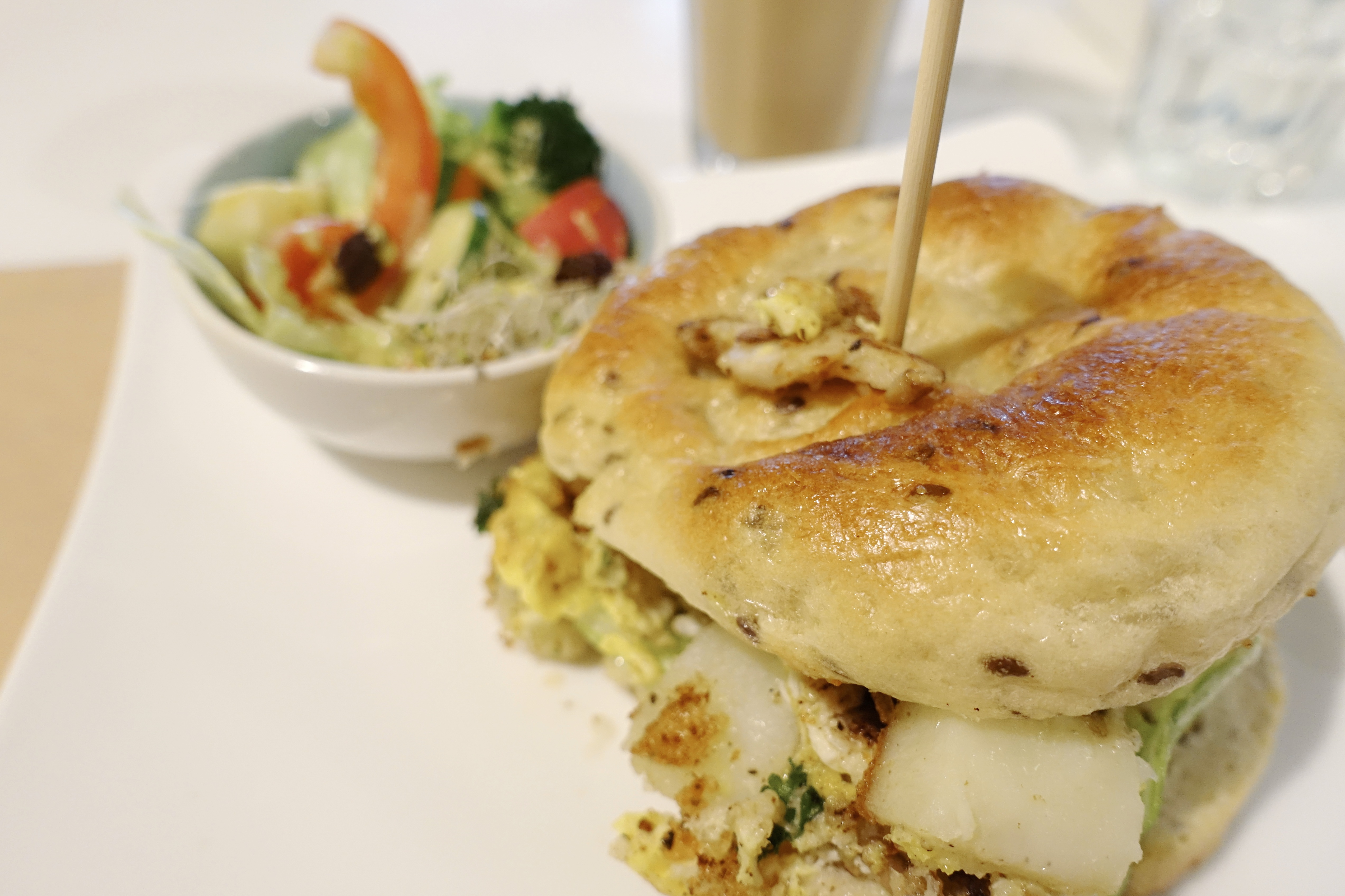 Egg & potato bagel sandwich